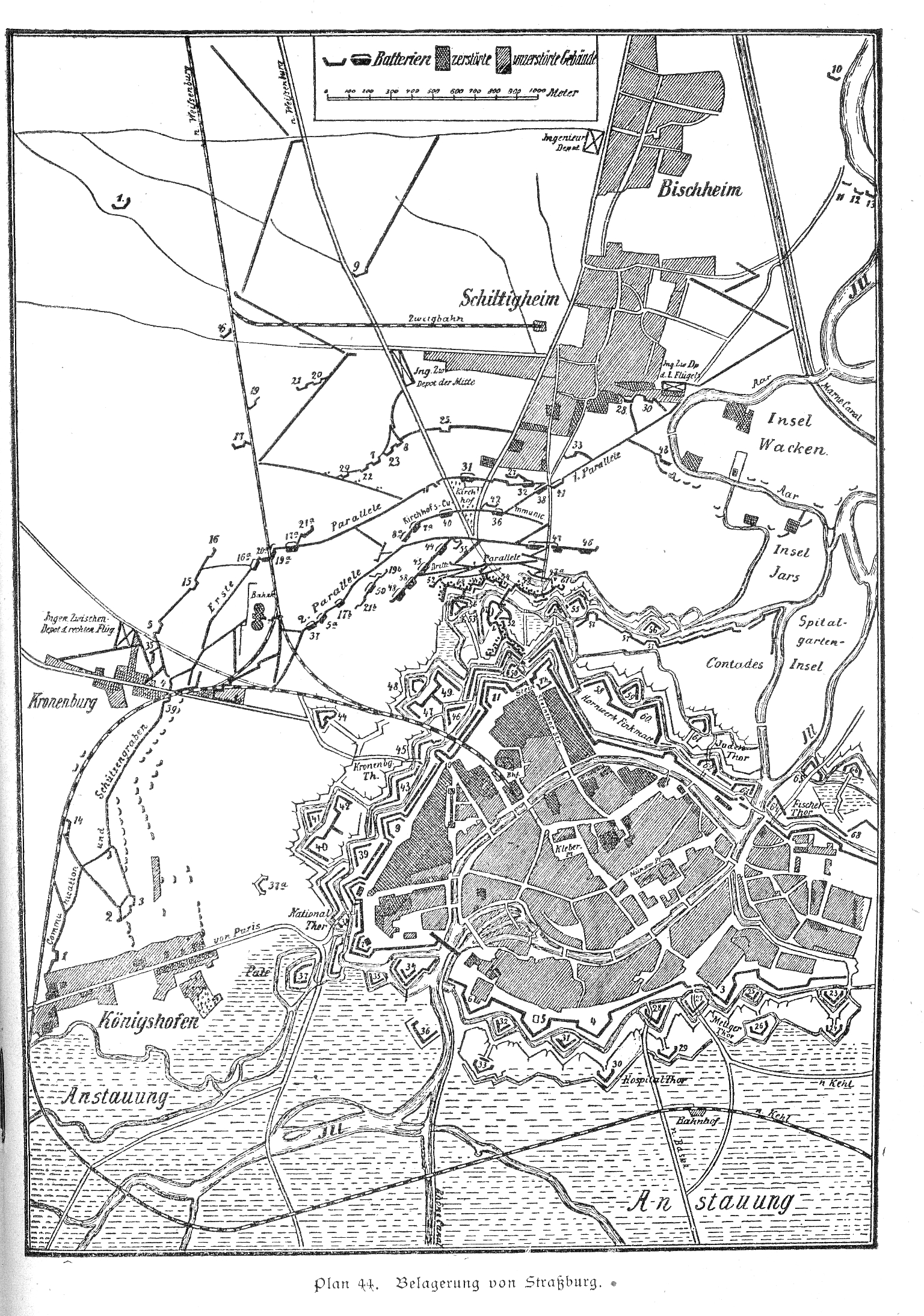 Plan of the siege works around the city of Straßburg from the siege of 1870